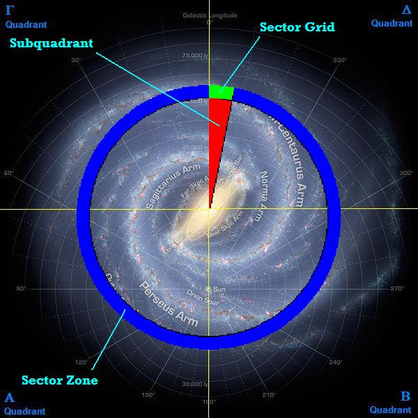 Using infrared images from NASA's Spitzer Space Telescope, scientists have discovered that the Milky Way's elegant spiral structure is dominated by just two arms wrapping off the ends of a central bar of stars